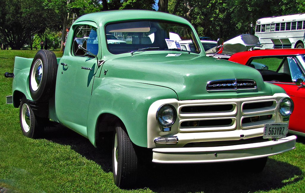 1956 Studebaker 2E Pickup. An antique truck seen at the regional Studebaker show show in Cillicothe, Ohio.